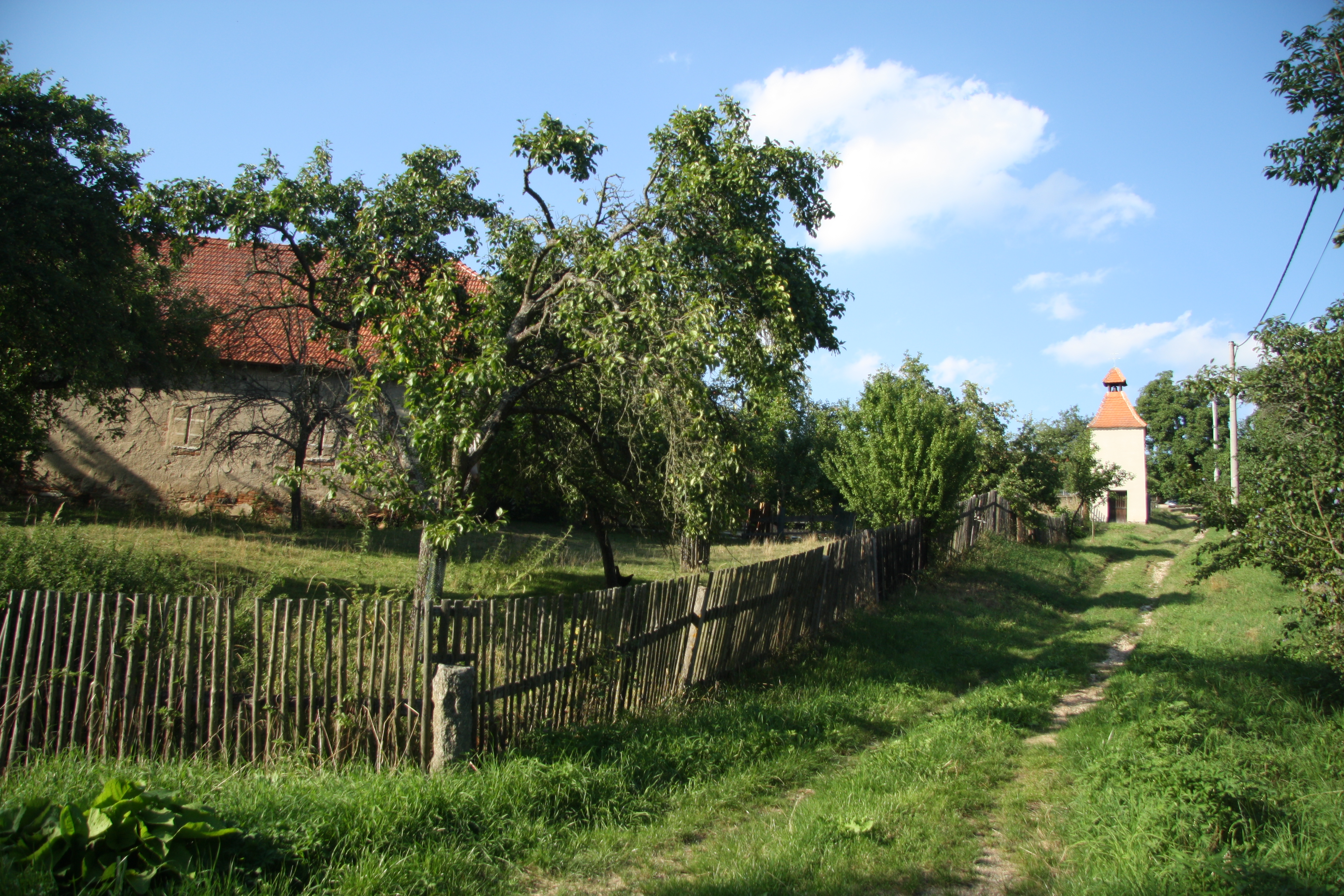 Center of Jestřabí, Velká Bíteš, Žďár nad Sázavou District.